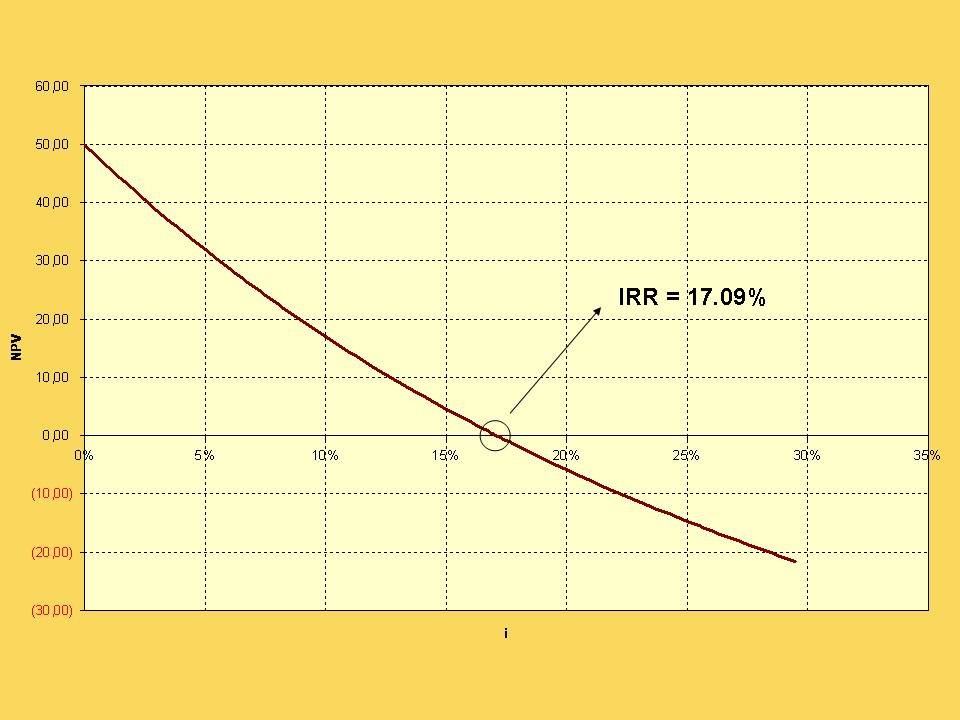 Internal rate of return - Graph created by Igor Banholzer ("Grieger").